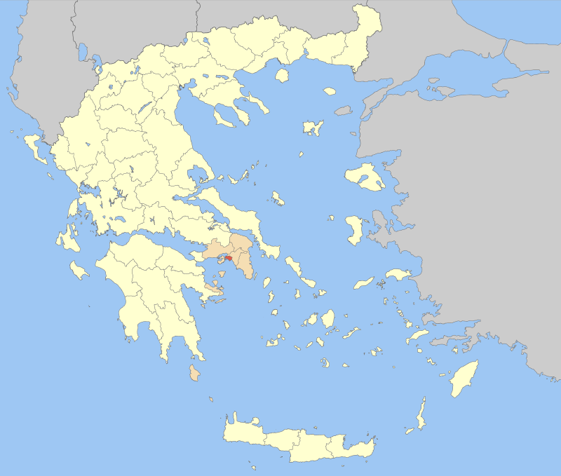 Enotita Pirea